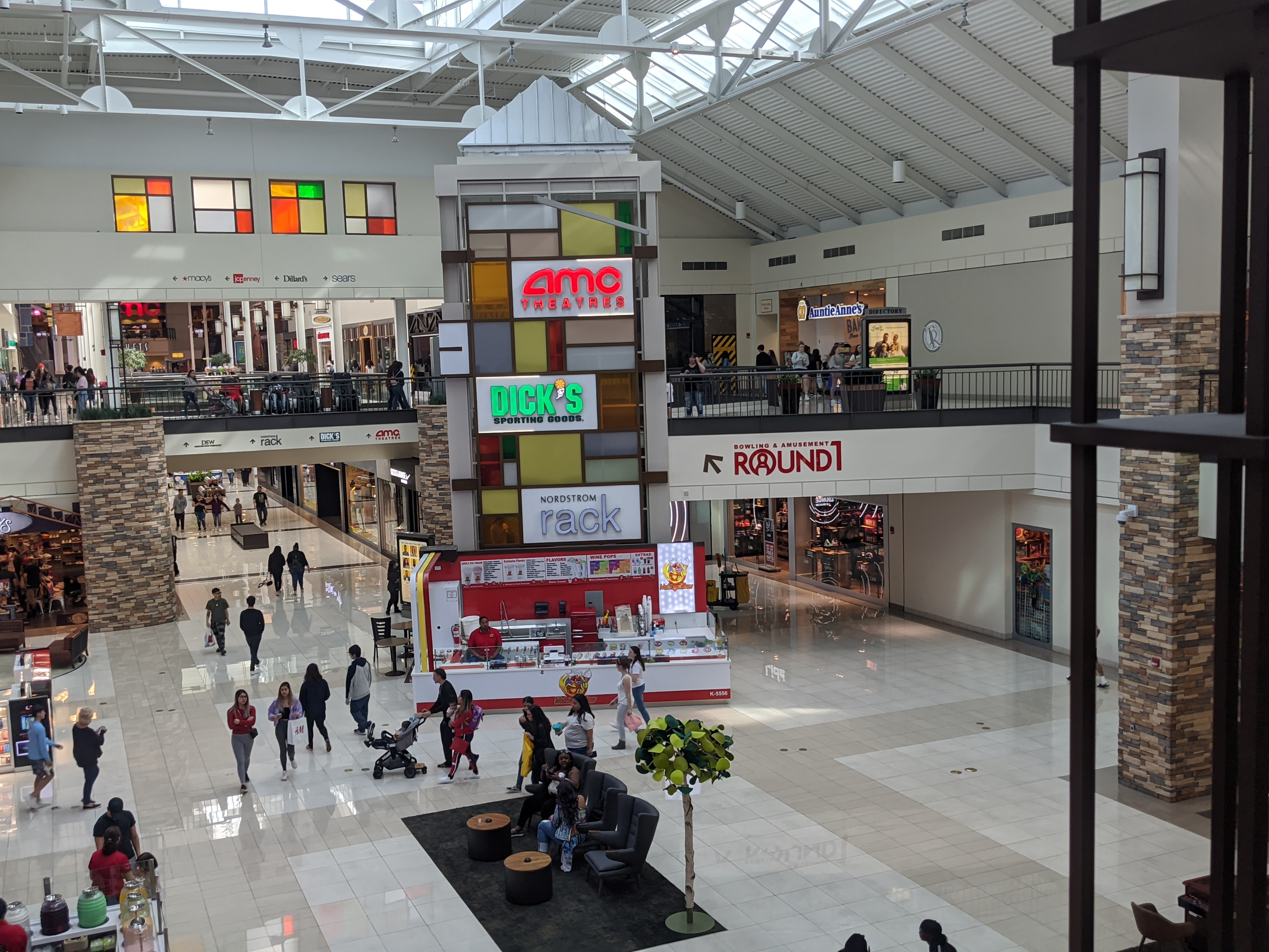 The South Court parks mall